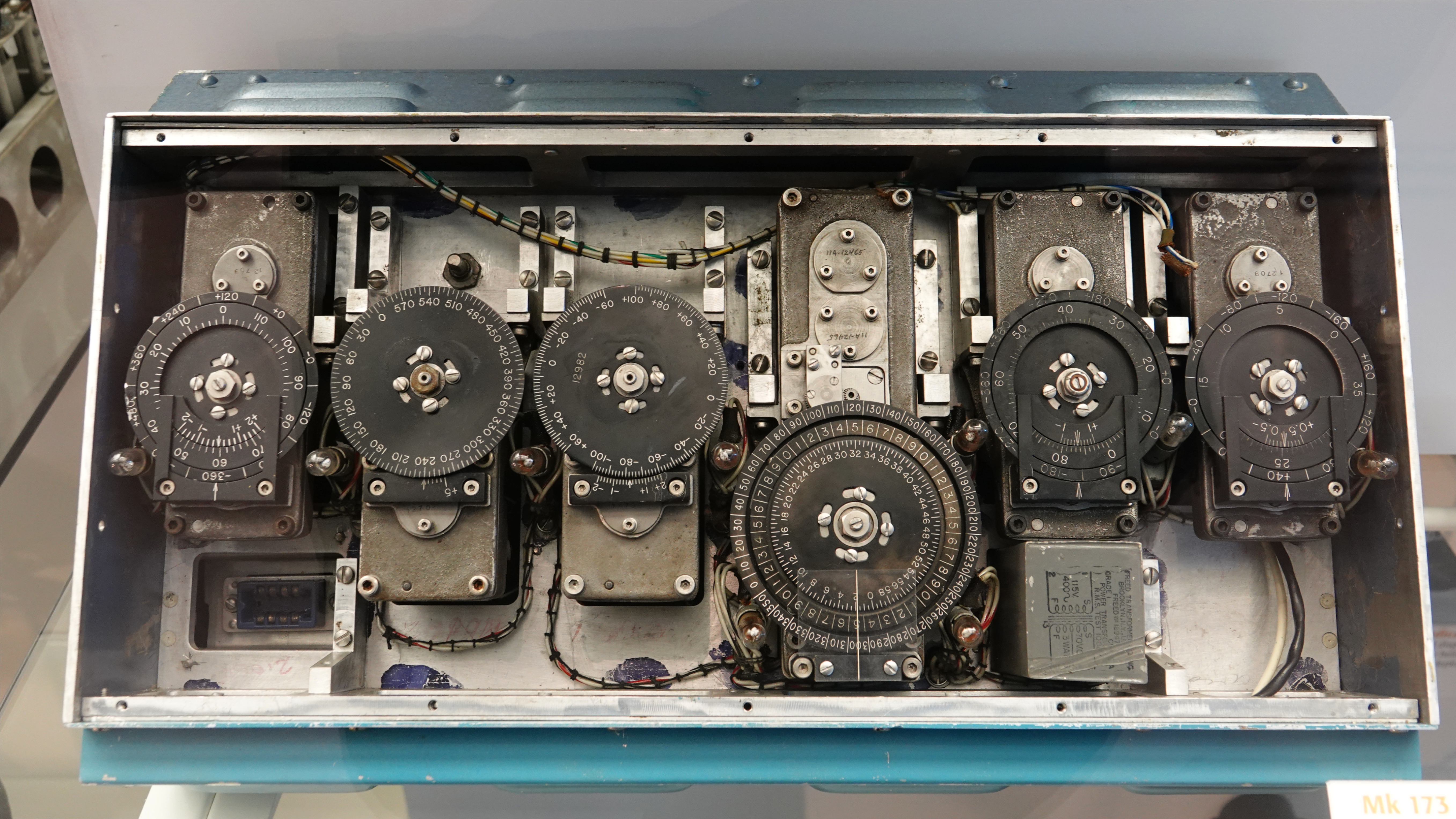 During the early 1950s, Charles Draper’s team at MIT developed a prototype pure inertial reference system to guide submarines, missiles, and aircraft, known as Space Inertial Reference Earth (SPIRE). It used gyroscopes and accelerometers connected to a computer to determine position without emitting signals that could reveal position or relying on external signals that might be vulnerable to enemy interference. On February 8, 1953, SPIRE guided a B-29 from New Bedford, Massachusetts to Los Angeles entirely under automatic control. As the first truly successful demonstration of inertial navigation, it ushered in the rapid adoption of inertial navigation systems by the US. Navy and Air Force. Picture taken at the National Air and Space Museum's Steven F. Udvar-Hazy Center in Chantilly, Virginia, USA. Gift of the Massachusetts Institute of Technology.